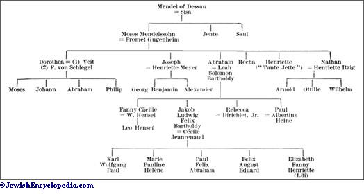 Genealogy of Moses Mendelssohn descendants